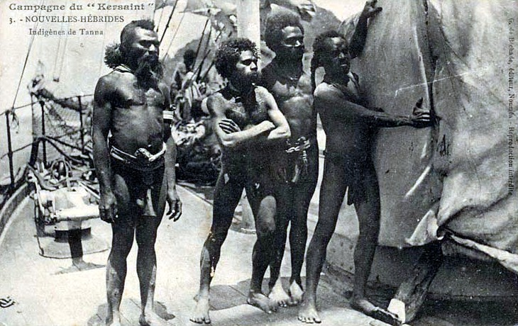 Native men of Tanna, colonial New Hebrides (present day Vanuatu). Early postcard, c 1905 (postally unused; divided back)